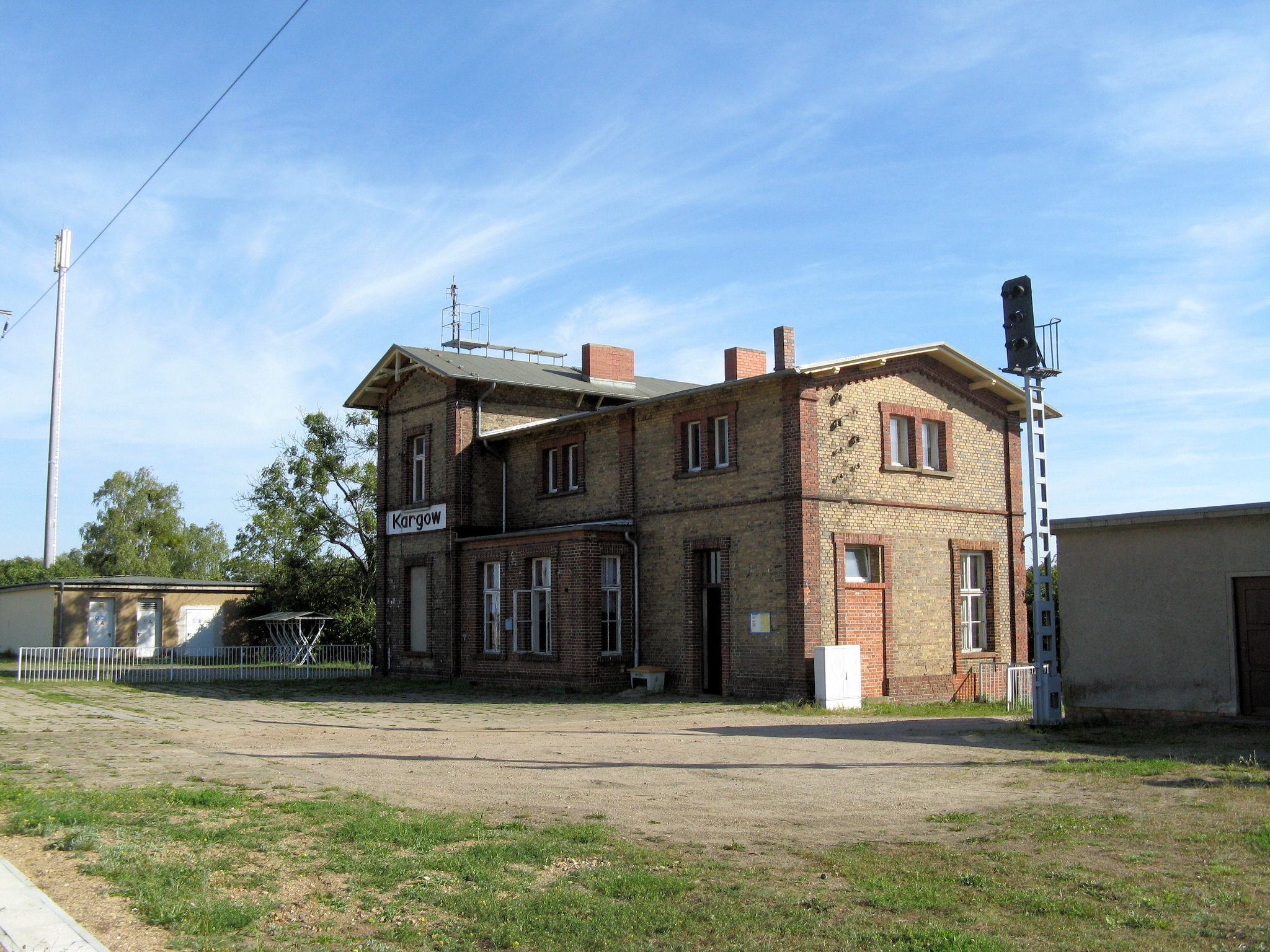 Train station building in Kargow, district Mecklenburgische Seenplatte, Mecklenburg-Vorpommern, Germany